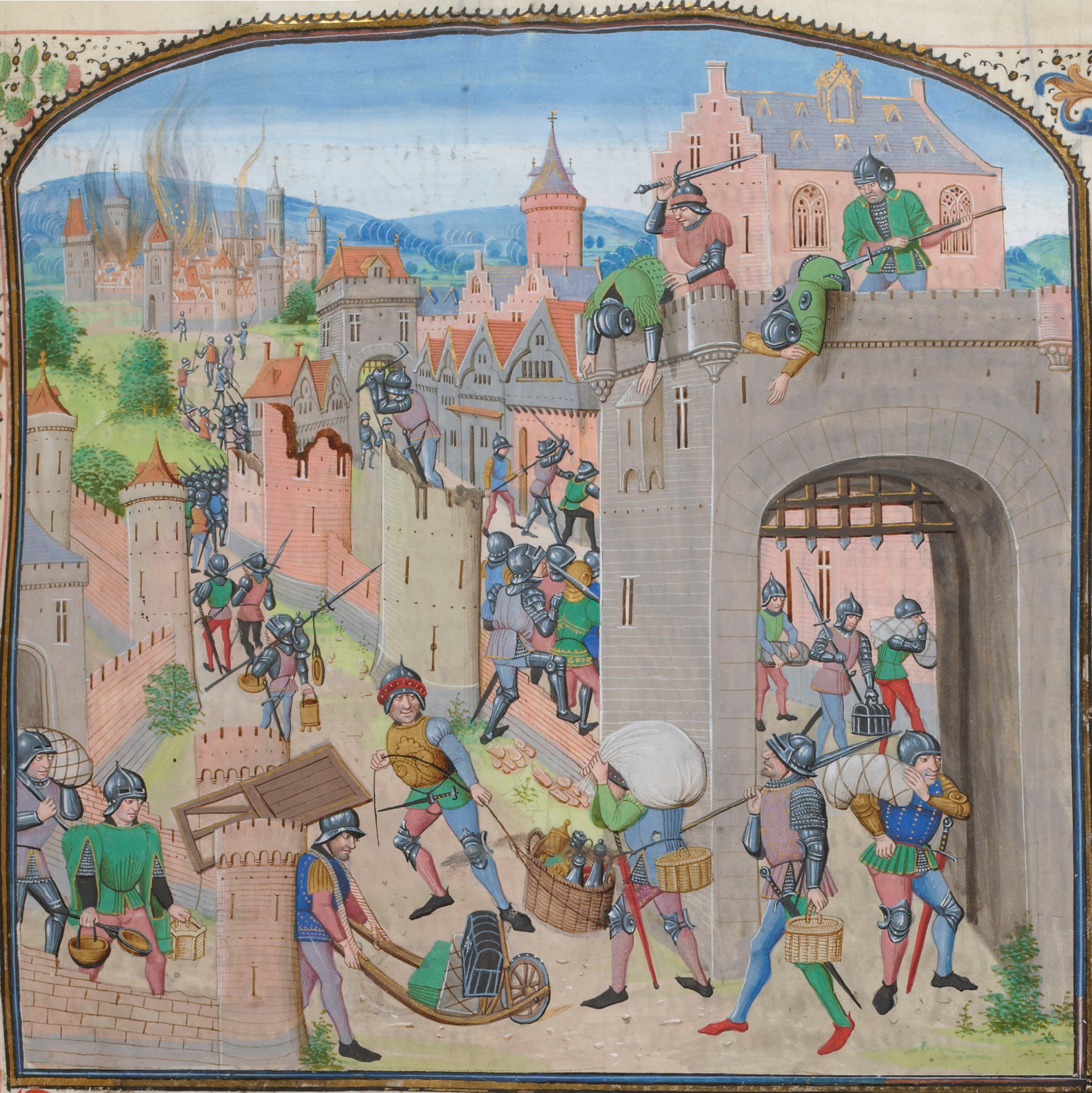 The men of Ghent capture and pillage Grammont (1380). (BNF, FR 2644) Jean Froissart, Chronicles, fol. 135. Flandres, Bruges 15th Century. (185 x 200 mm)